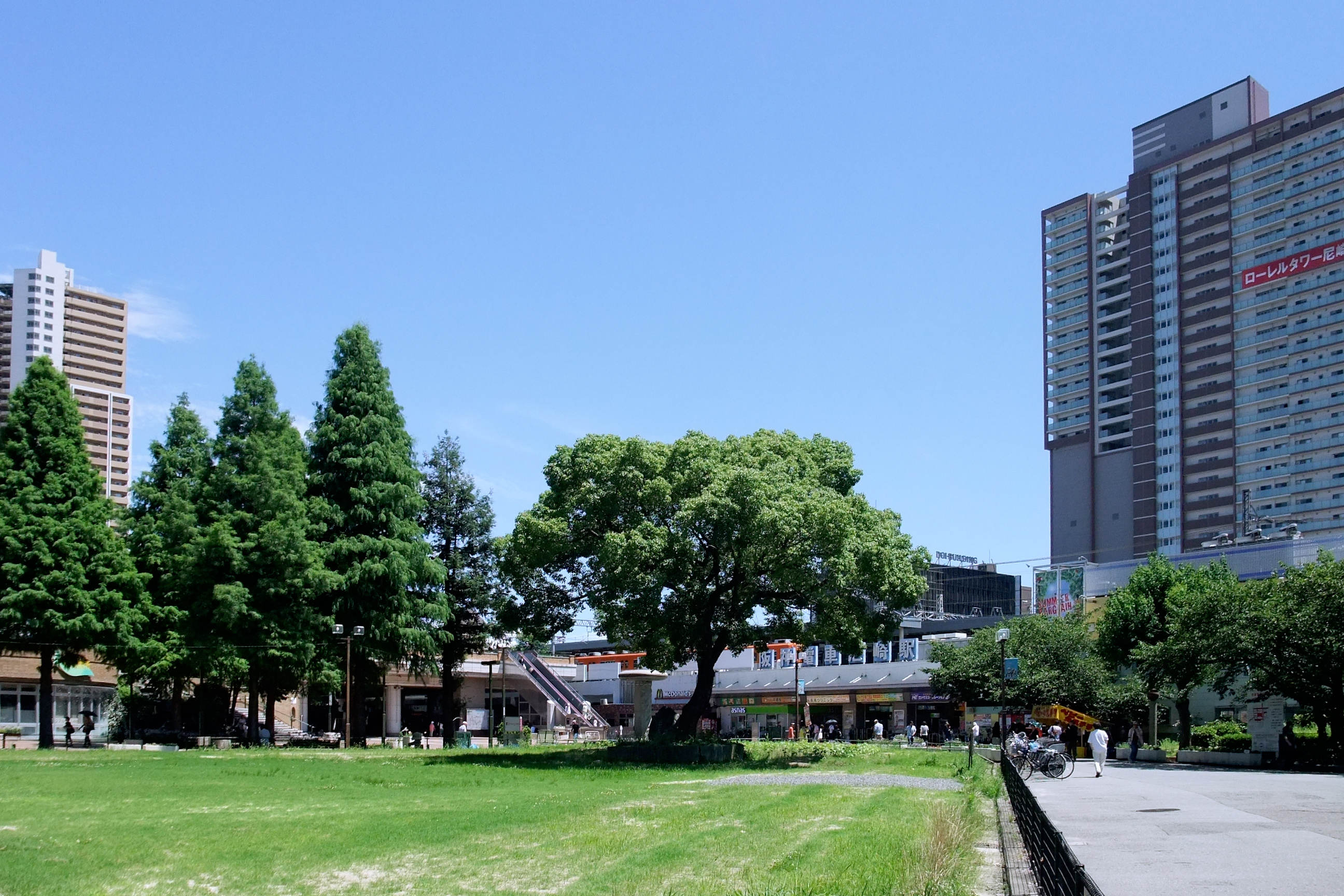 Amagasaki Station (Hanshin) in Amagasaki, Hyogo prefecture, Japan